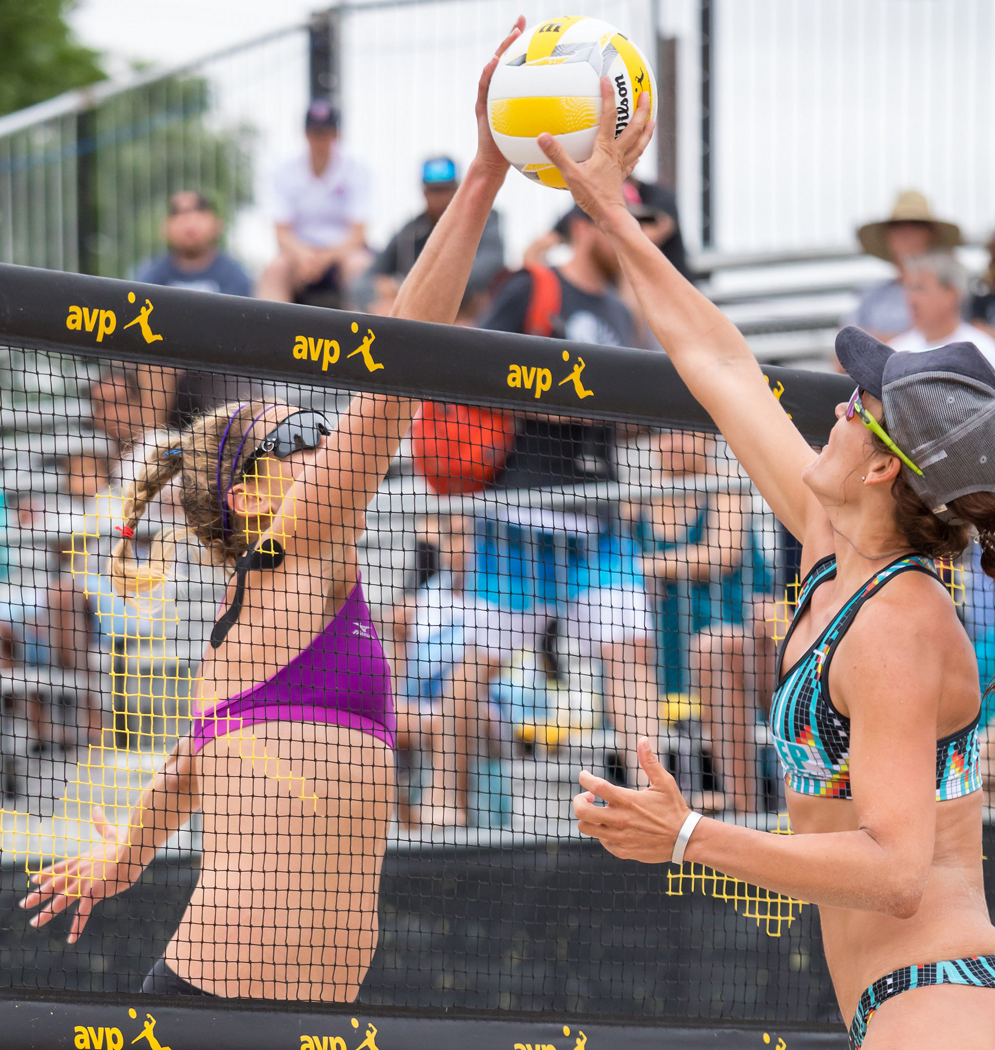 AVP Austin Open professional beach volleyball tournament in Austin, Texas on May 21, 2017.